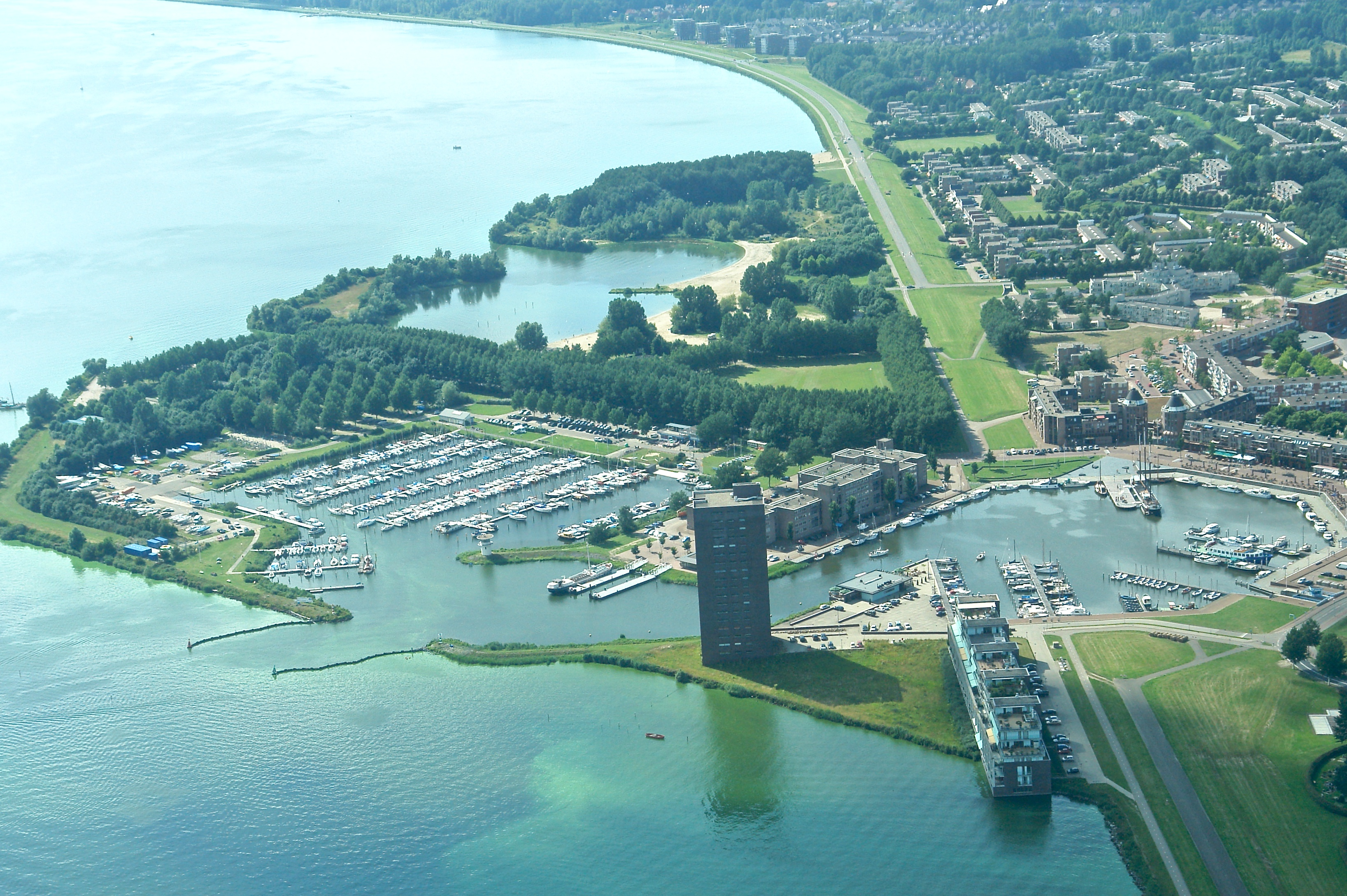 Almere Harbour, Netherlands